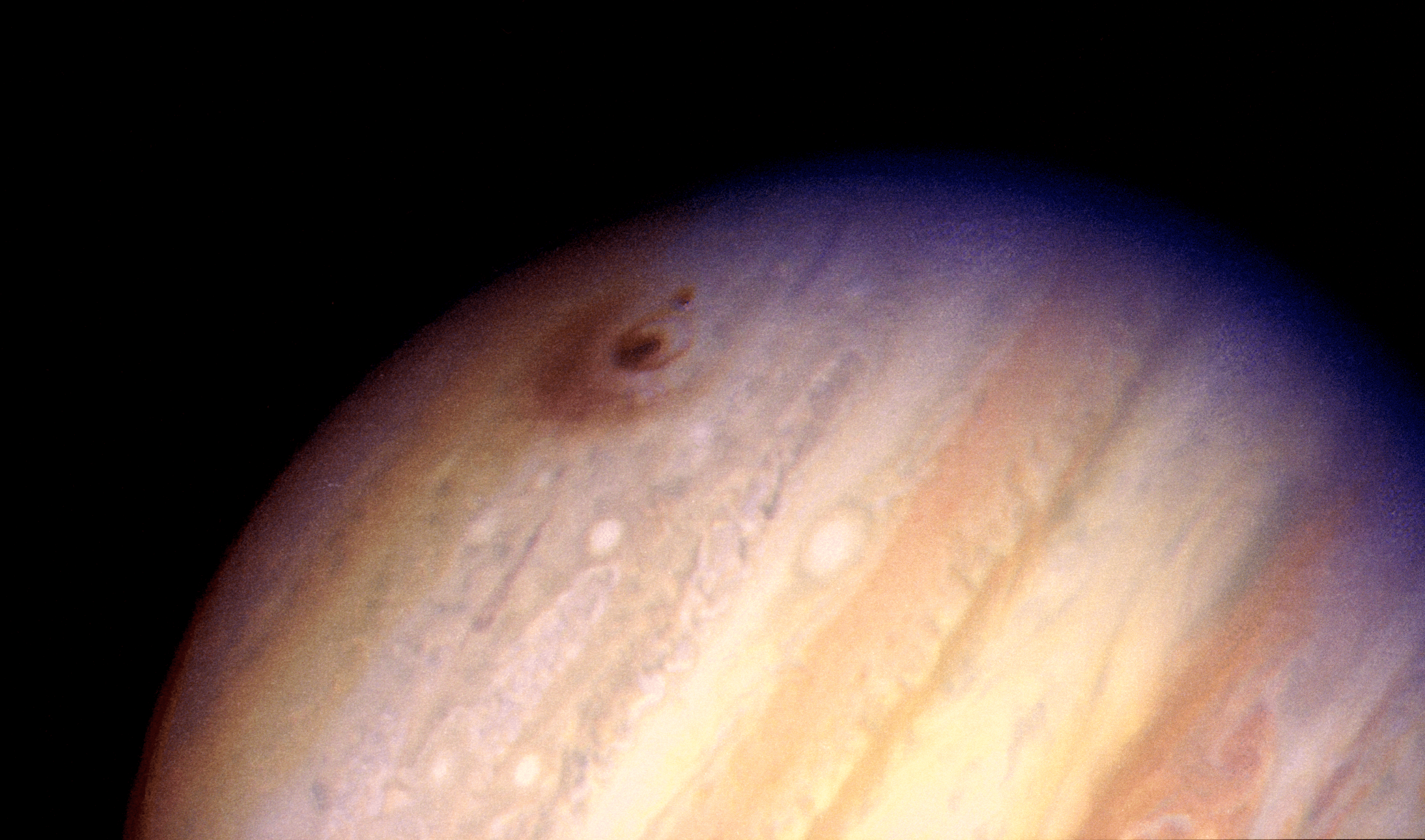 Impact site of fragment G (~1km in diameter) of Comet Shoemaker-Levy 9 on Jupiter